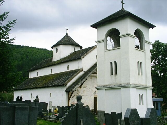 Church of st. Michail the Archangel in Bijelo Polje, Montenegro